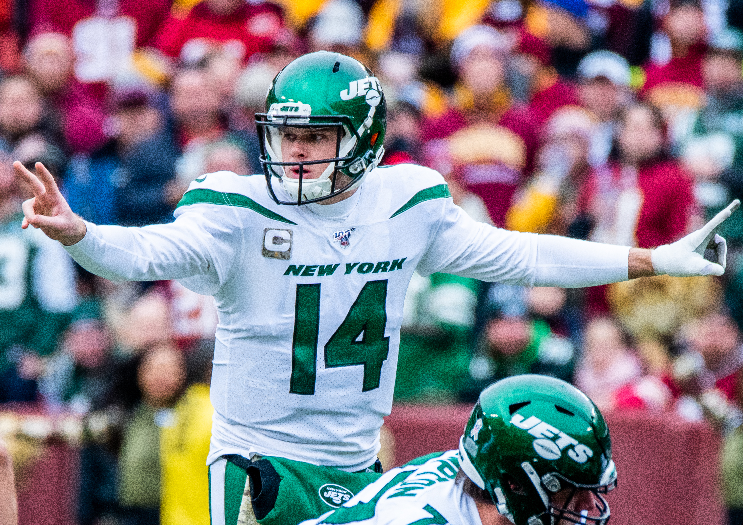 In 2019